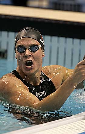 Aleksander Hetland, World Championship 2004